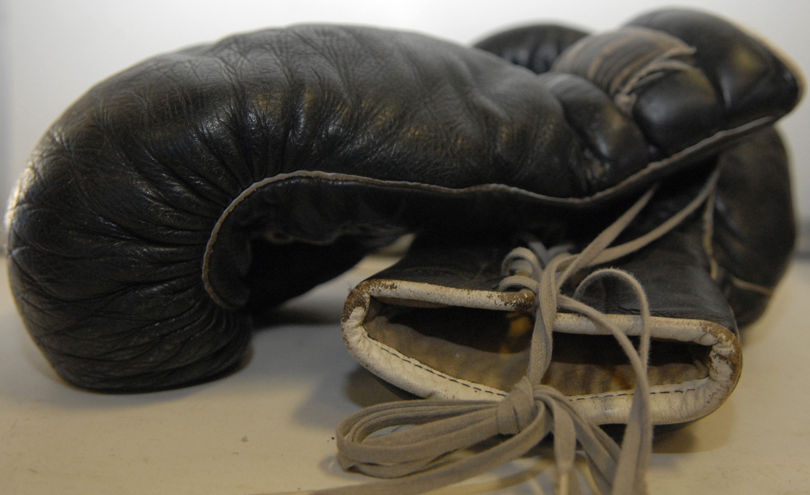 Pair of black leather boxing gloves